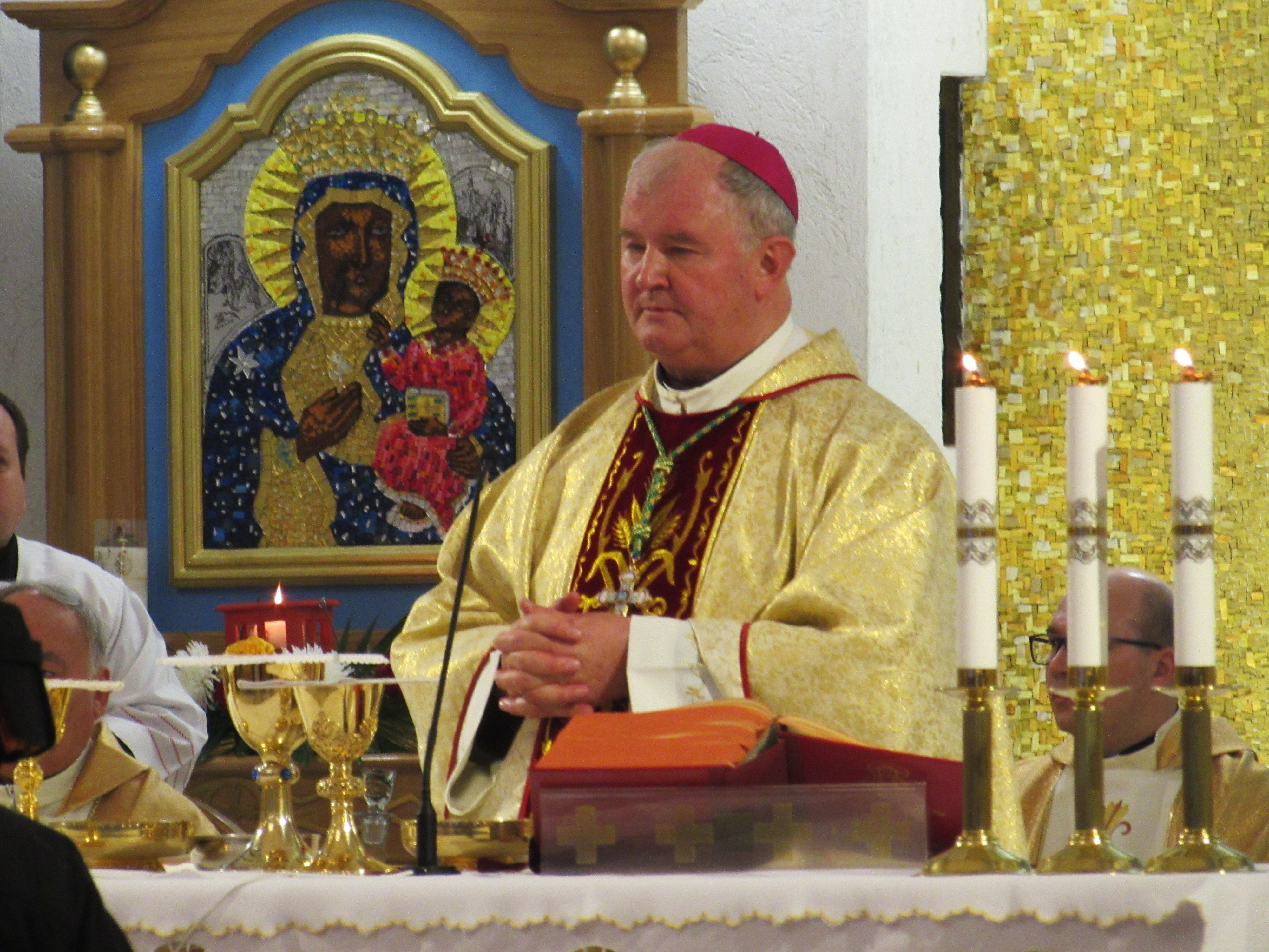 Bishop Aurel Percă